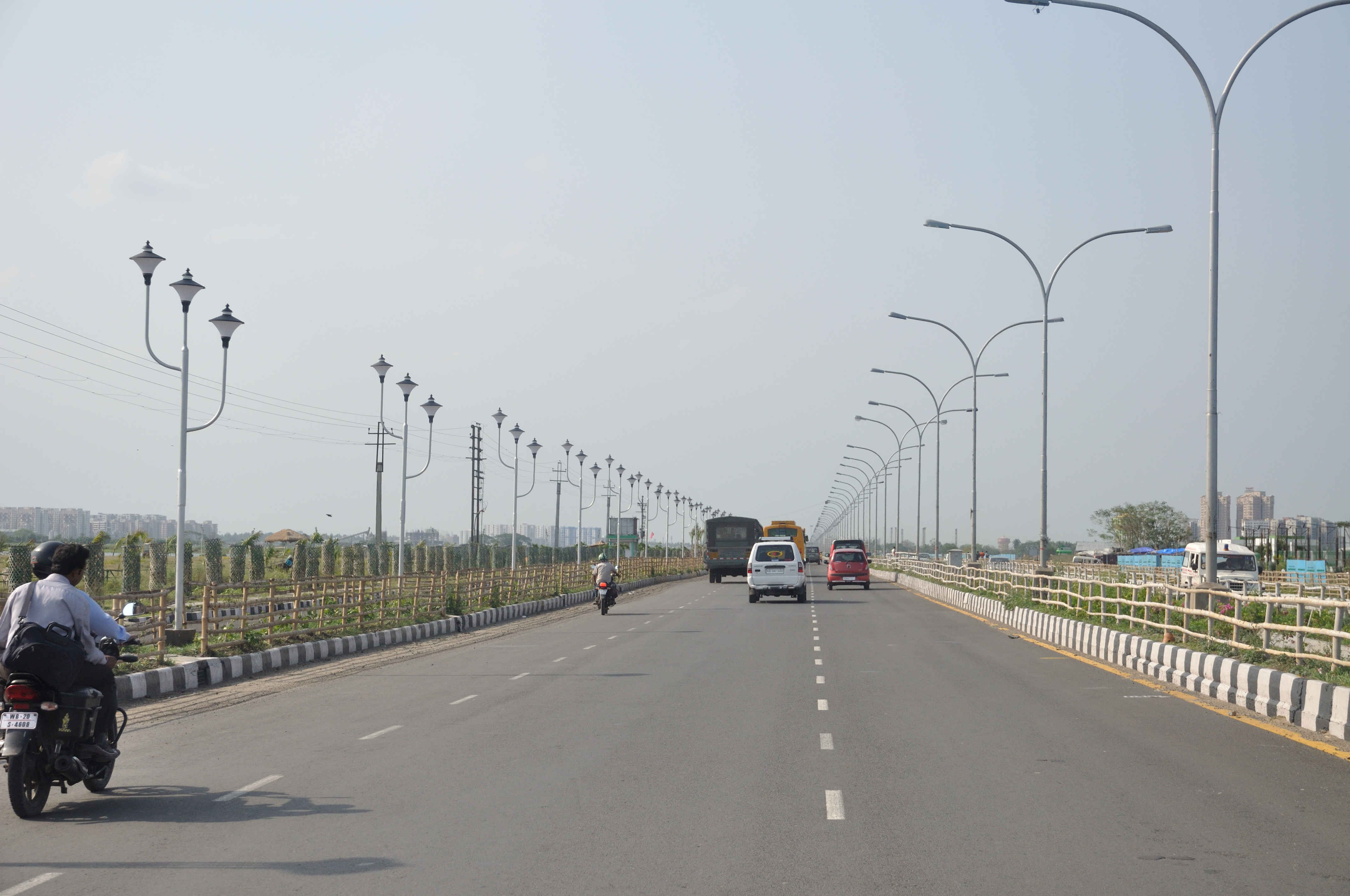 Rajarhat, Norh 24 Parganas, West Bengal.